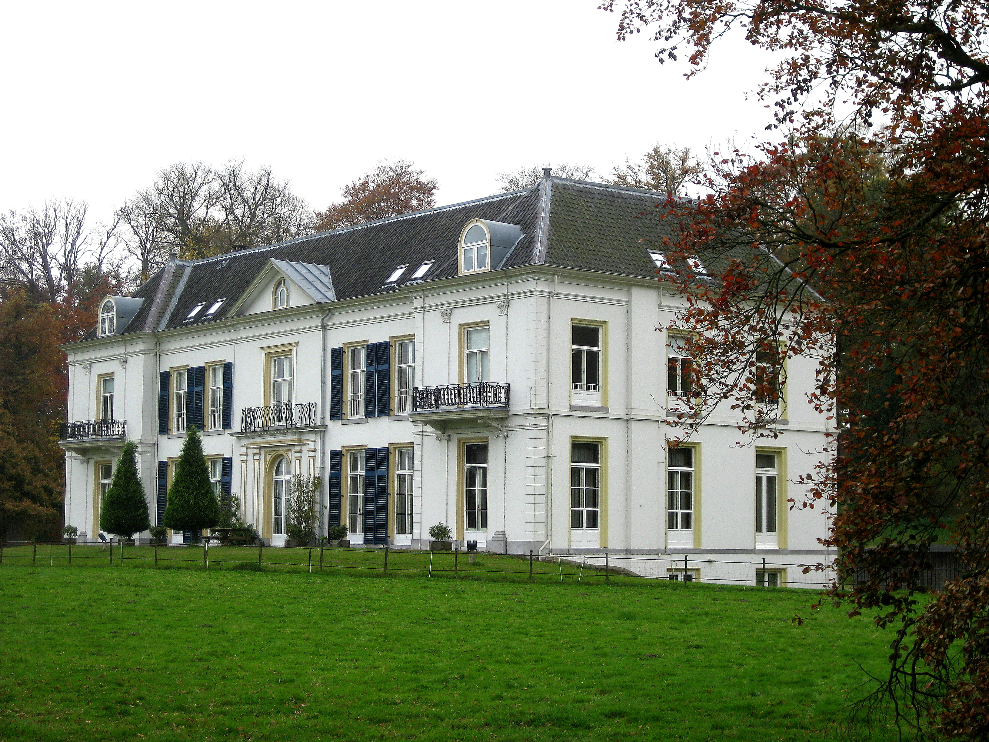 Heiligenberg Mansion near Leusden, Netherlands